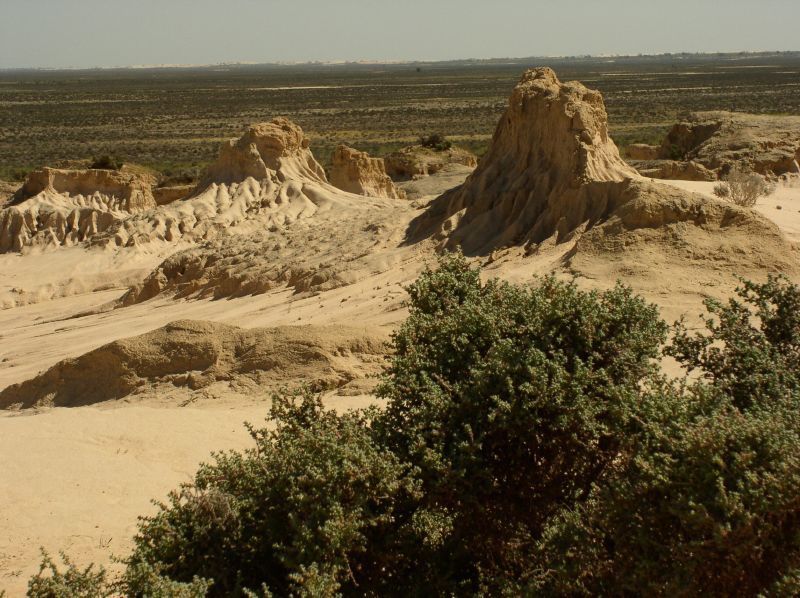 On top of the great wall of china (no, not that one). Mungo was once a lake, from this vantage point I am standing on the shore looking out over the water.